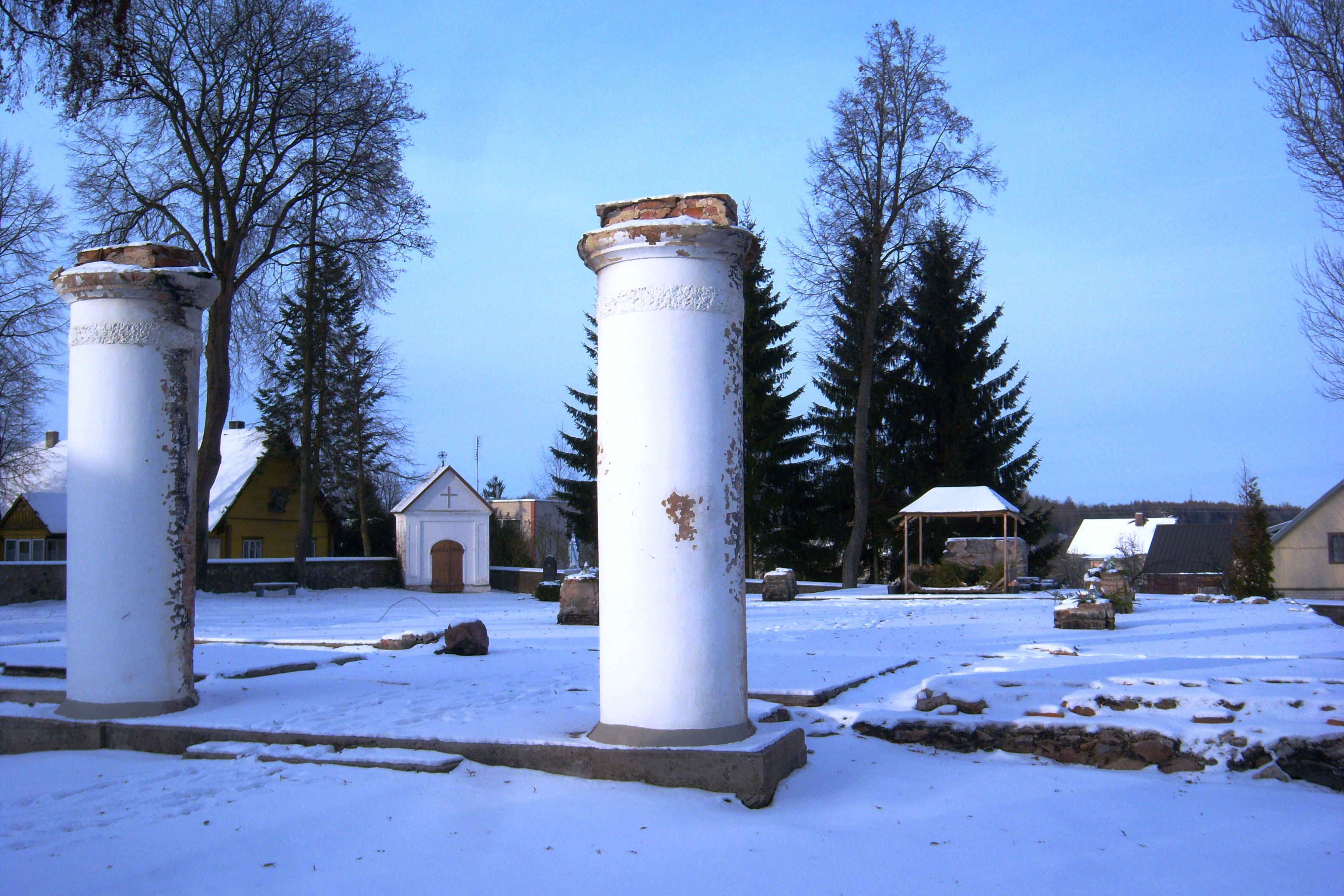 Balbieriškis, the place of the church after a fire in 2013, Prienai District, Lithuania